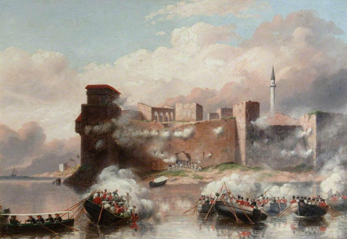 The Boats of HM Frigates Carysfort and Zebra with 50 Royal Marines, commanded by Lieutenant R. H. Harrison, Royal Marines, attacking the castle of Tortosa, 25 September 1840, by Robert George Kelly Medium oil on canvas Measurements H 30 x W 44 cm Collectionː Royal Marines Museum Accession number P/11/38